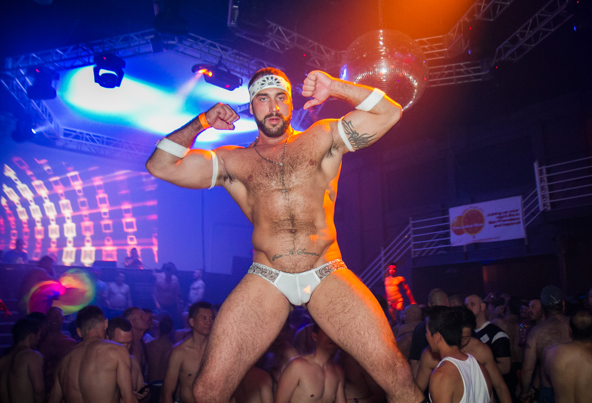 2012.04.22_Anthem_0020